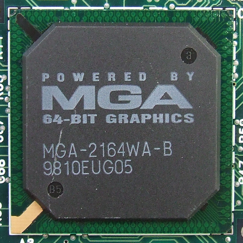 Matrox MGA-2164WA-B graphics processing unit, the AGP-compliant version of the Millennium II.